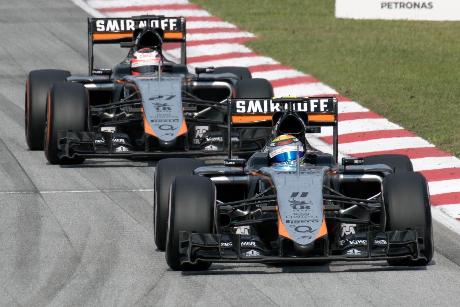 Formula One 2015 Rd.2 Malaysian GP: Sergio Pérez and Nico Hülkenberg (Force India)